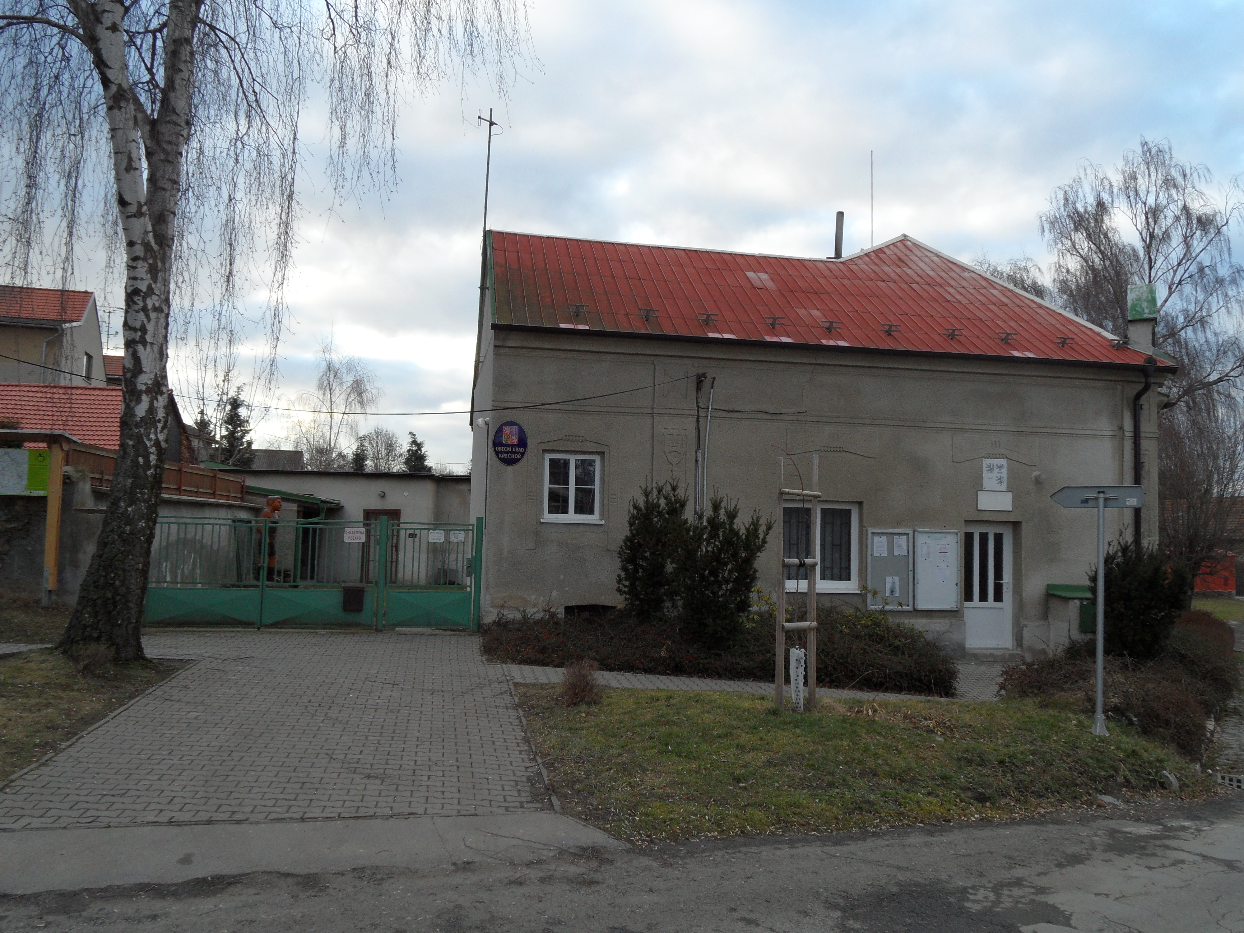 Křečhoř E. Building of Municipality Office and Firehouse, Kutná Hora District, the Czech Republic.